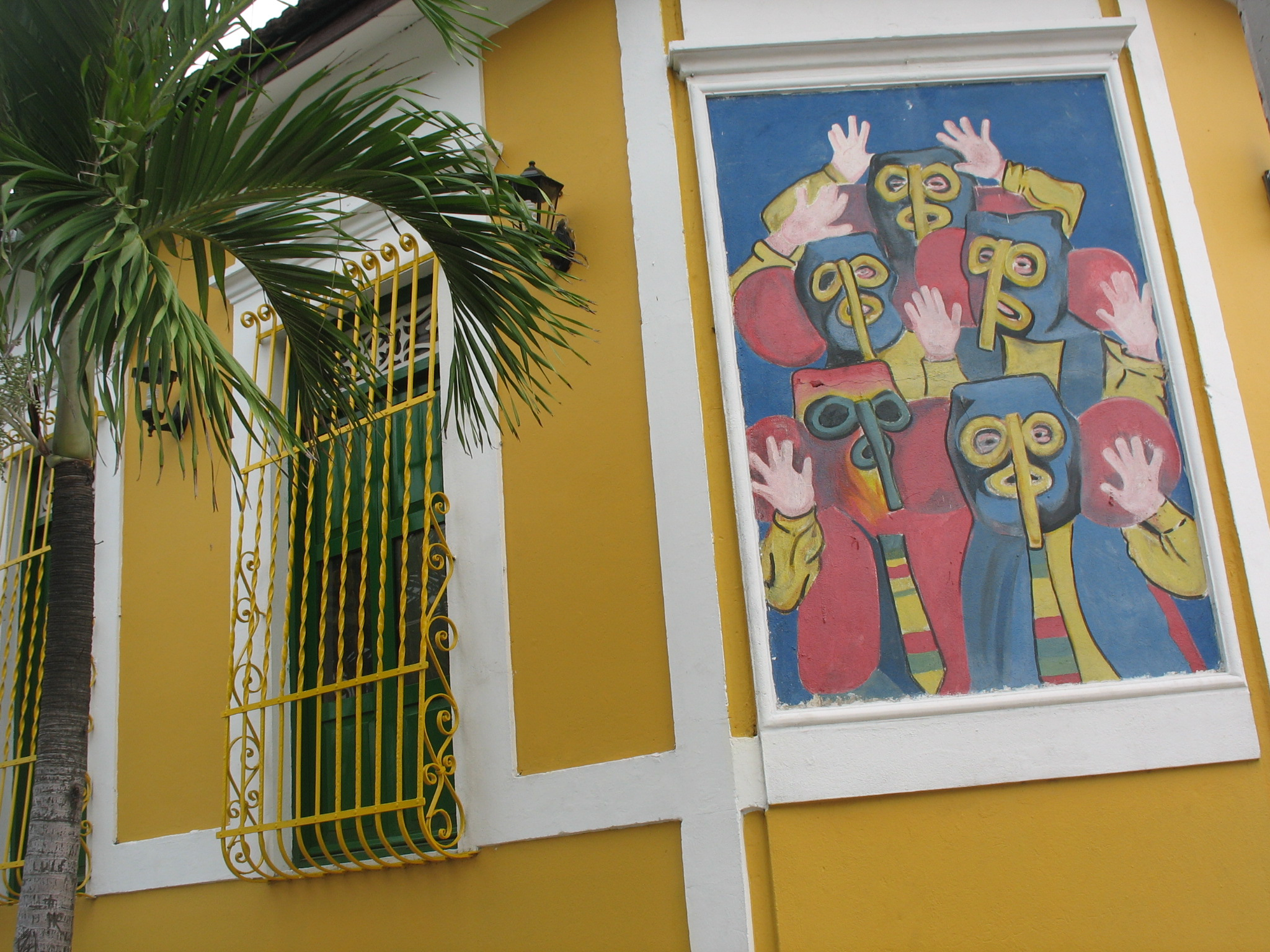 Barranquilla Carnival House